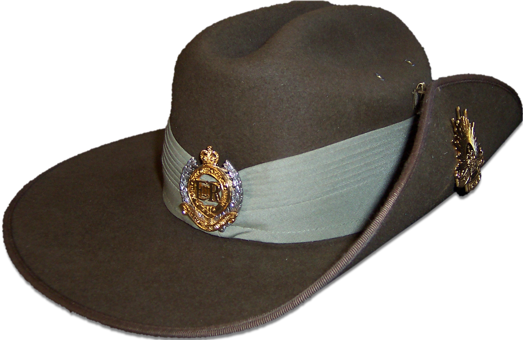 A picture of my ceremonial slouch hat, edited in Paint Shop Pro X to remove the background. I took this image and edited it myself and release it to the public domain. sorry about the outline quality. Kommando 00:34, 15 April 2007 (UTC)